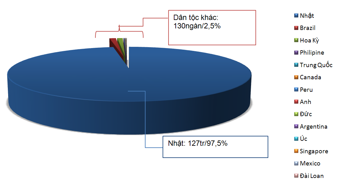 Japanese Demography